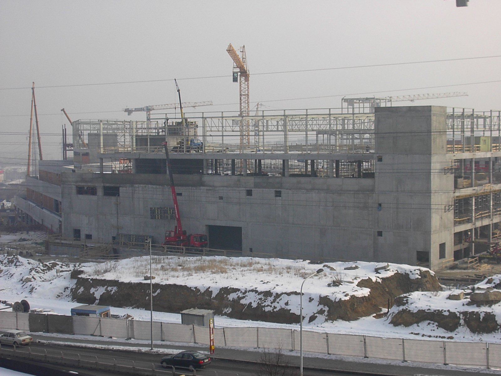 Centrum Chodov shopping centre at Chodov under construction. March 5, 2005.